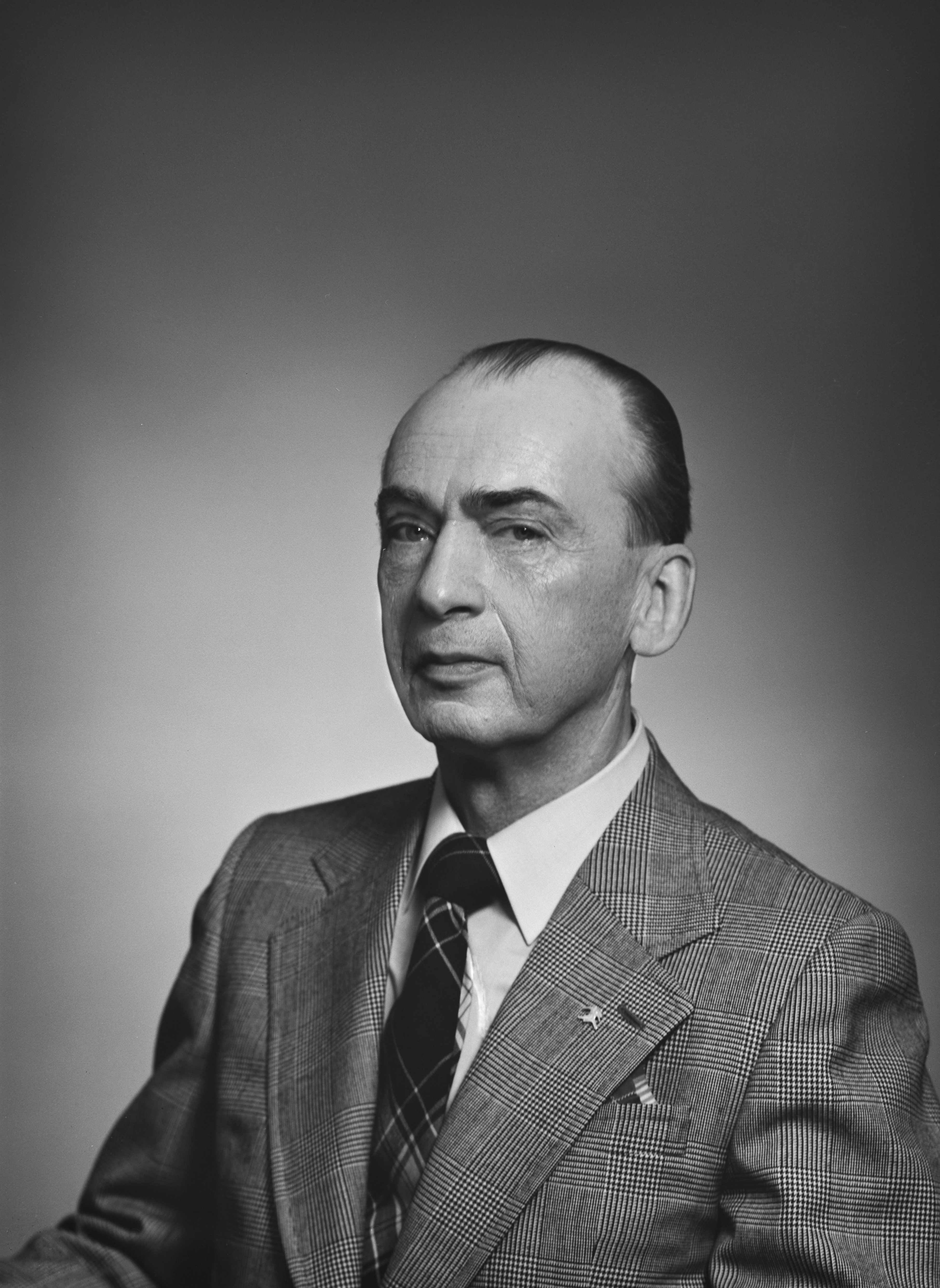 Photograph the the Finnish publisher Juhana Perkki (1915–2006).